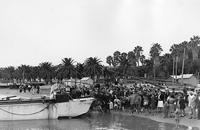 Operation Torch: Some of the inhabitants of Arzeu, meet the US soldiers on the beach.